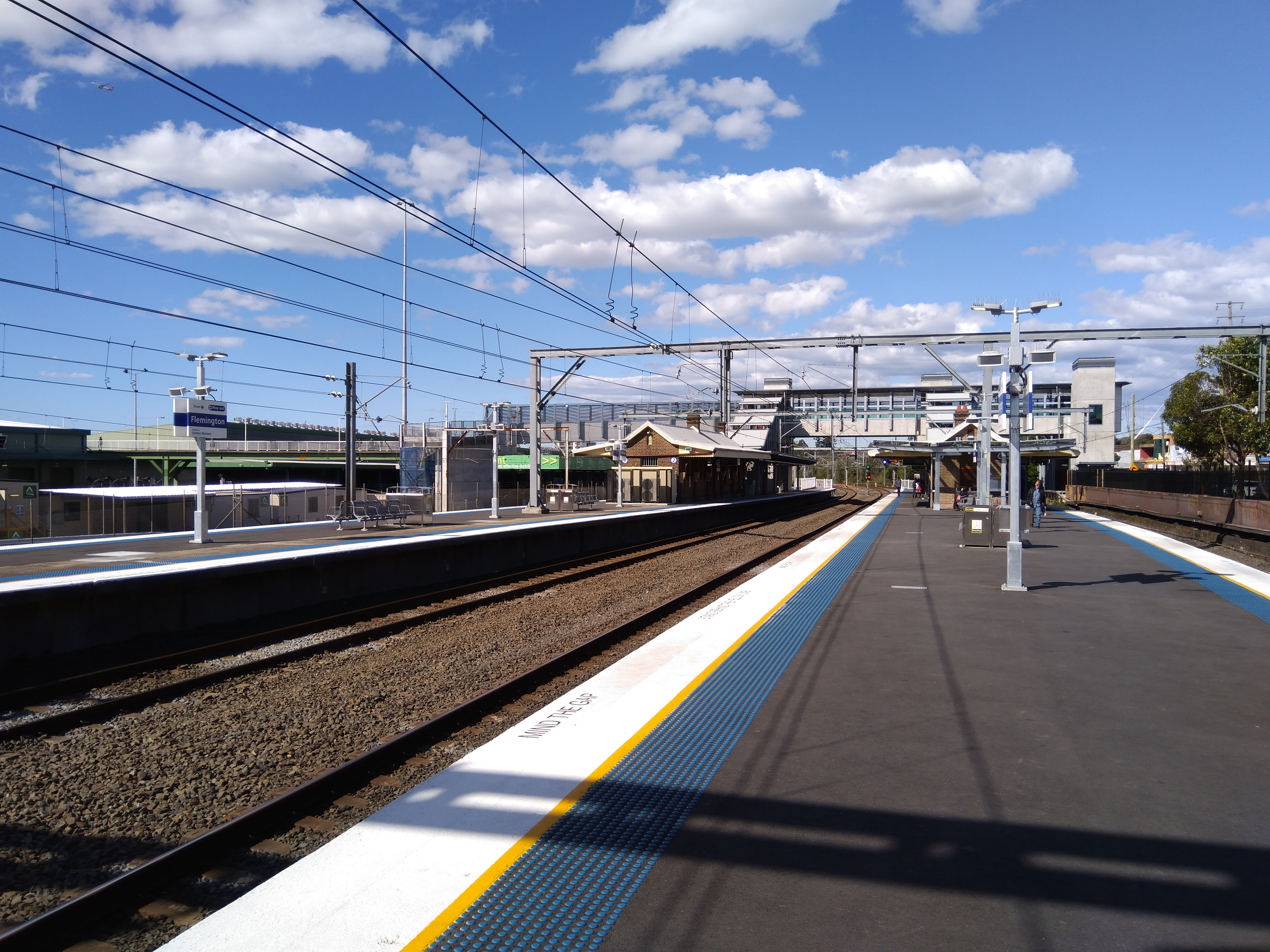 Platforms from the western end.